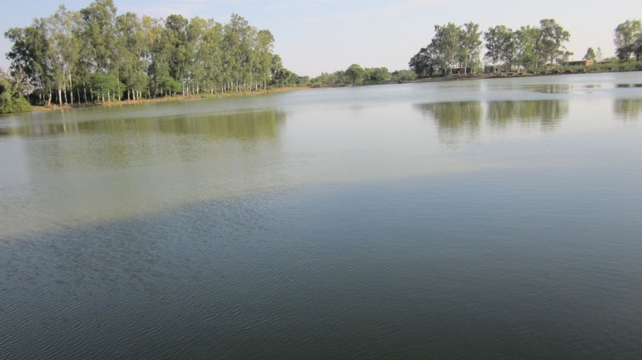 Ramsar - Pubowal Himachal INDIA